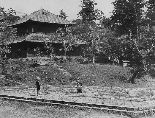 Ueno Daibutsuden(now defunct building)